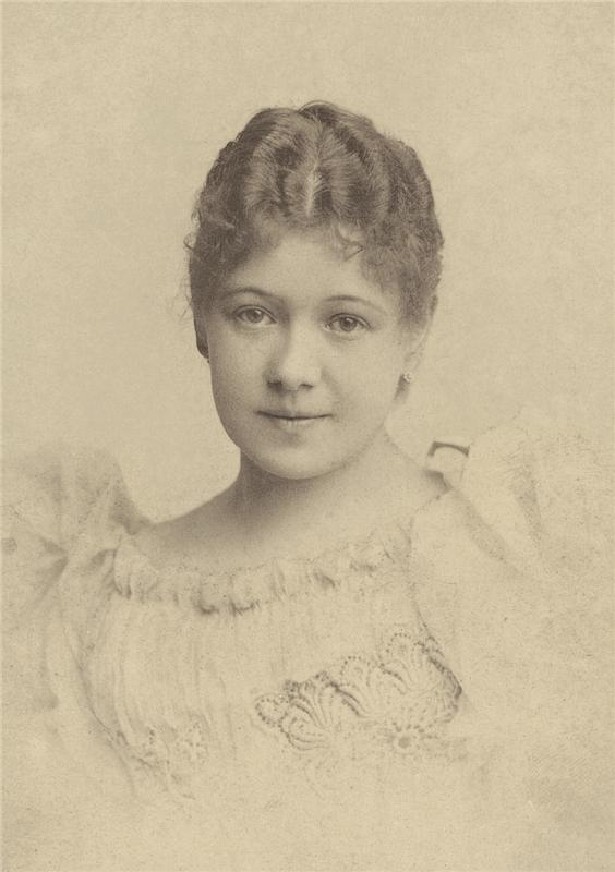 Czech actress Hana Kvapilová, actress of National Theatre in Prague Česky: Česká herečka Hana Kvapilová, členka Národního divadla v Praze